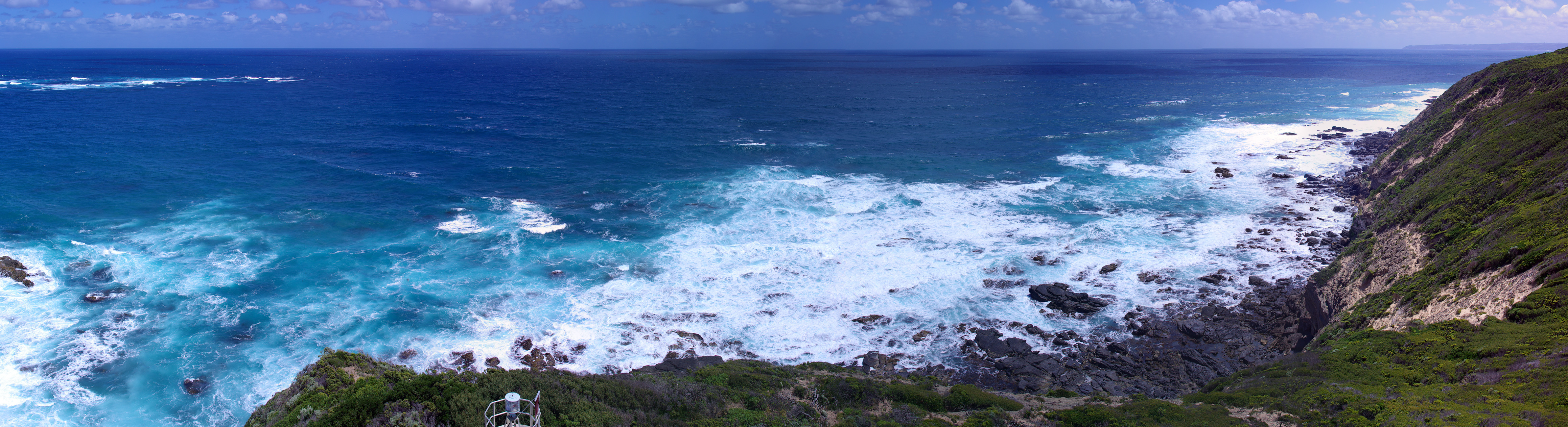 Panorama of the coastline on the south-western side Cape Otway, as pictured from the top of the Cape Otway Lighthouse.